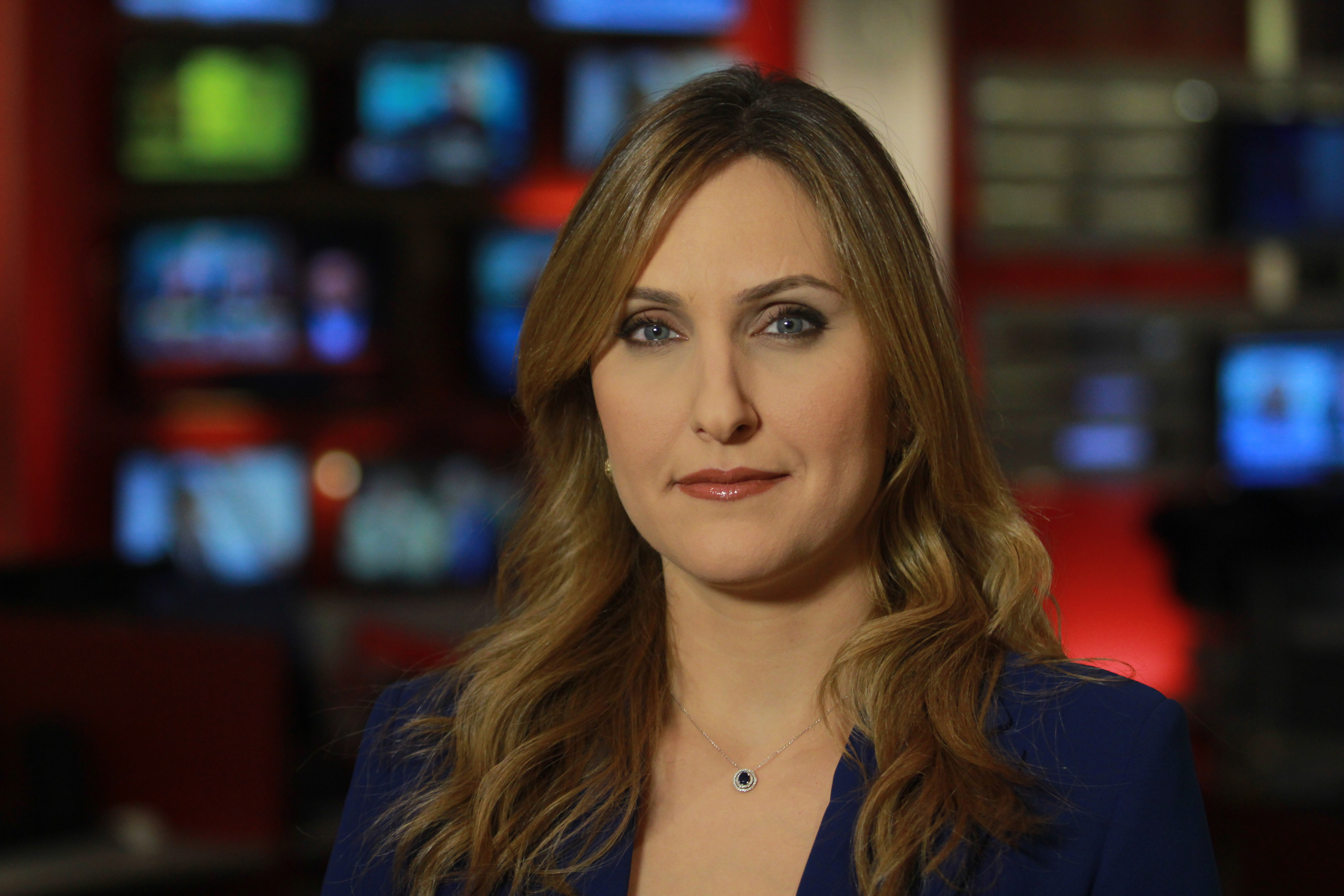 Keren Martsiyano